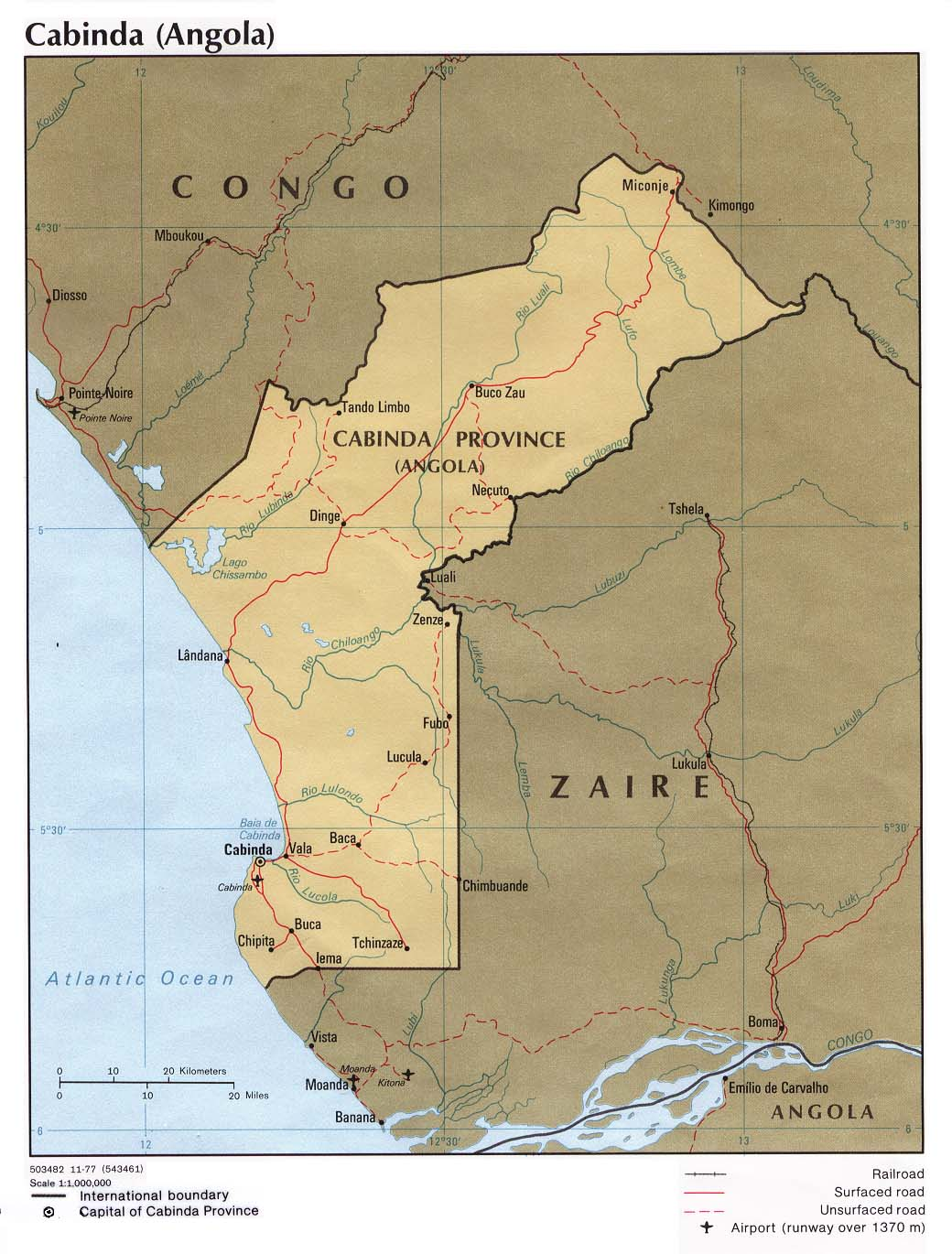 Political map of the Cabinda province, Angola.